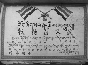 In Tibetan: བོད་ཡིག་པལ་སྐད་ཀྱི་གསར་འགྱུར་།།, in Chinese 藏文白話報 (written from right to left). This is a Tibetan-baihua Newspaper in Chinese and Tibetan script. The first line reads 中華民國二年五月出版第五號: May of ROC 2 (1913), fifth issue. The two flags at the top are the Five Races Under One Union flags (In Chinese, 五族共和) used at the begining of the Republic of China.